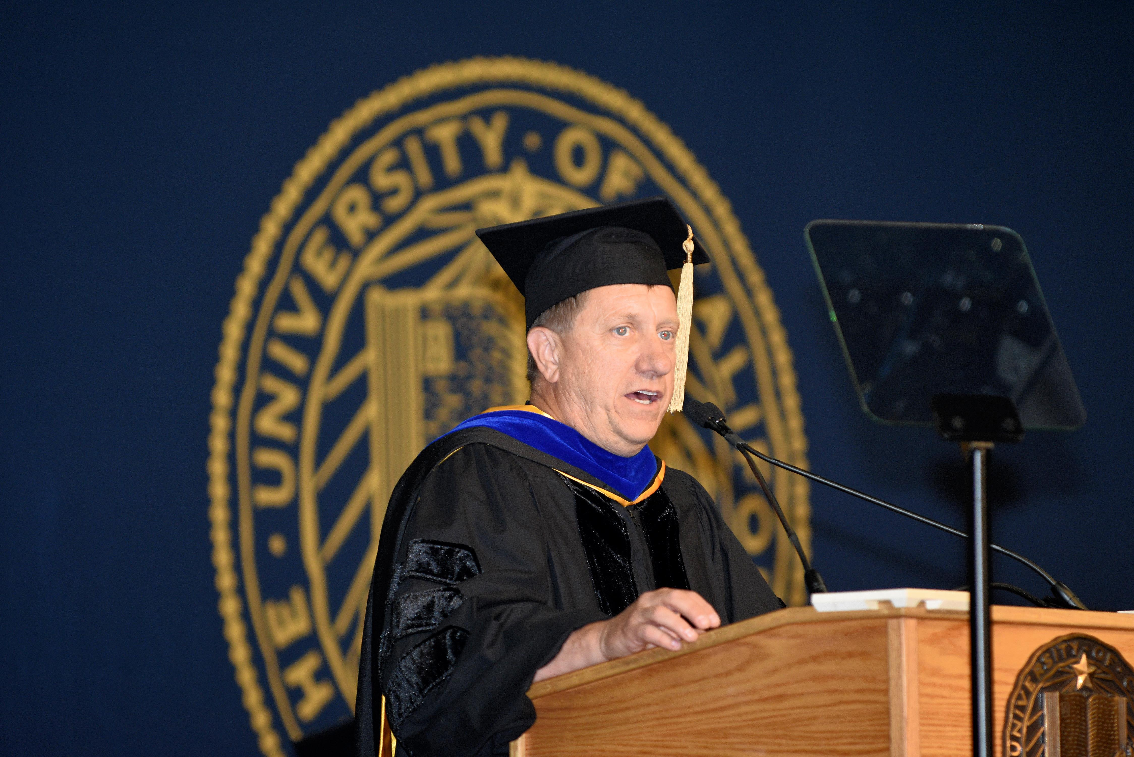 More than 700 engineering students received their degrees at the College of Engineering’s spring commencement ceremony on Sunday, June 17, 2018. Speakers included UC Davis Chancellor Gary S. May, tech leader and alumnus Tim Bucher, and biomedical engineering graduate Shonit Nair Sharma. Photos: Grad Images.